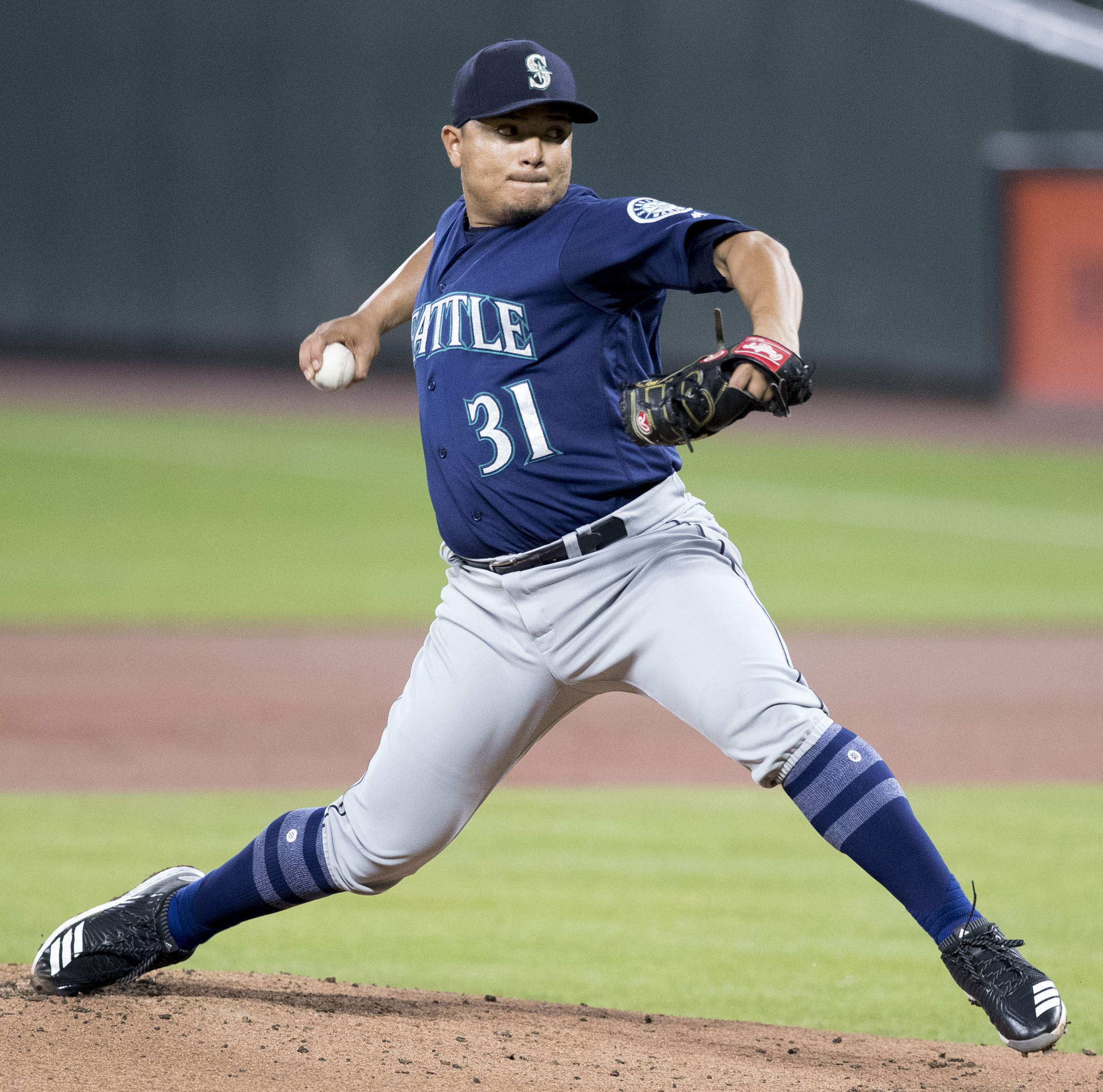 Erasmo Ramirez of the Seattle Mariners pitches in a game against the Baltimore Orioles at Oriole Park at Camden Yards on August 29, 2017 in Baltimore, Maryland.